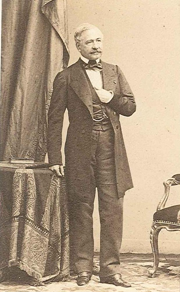 Ferdinand Marie Vicomte de Lesseps